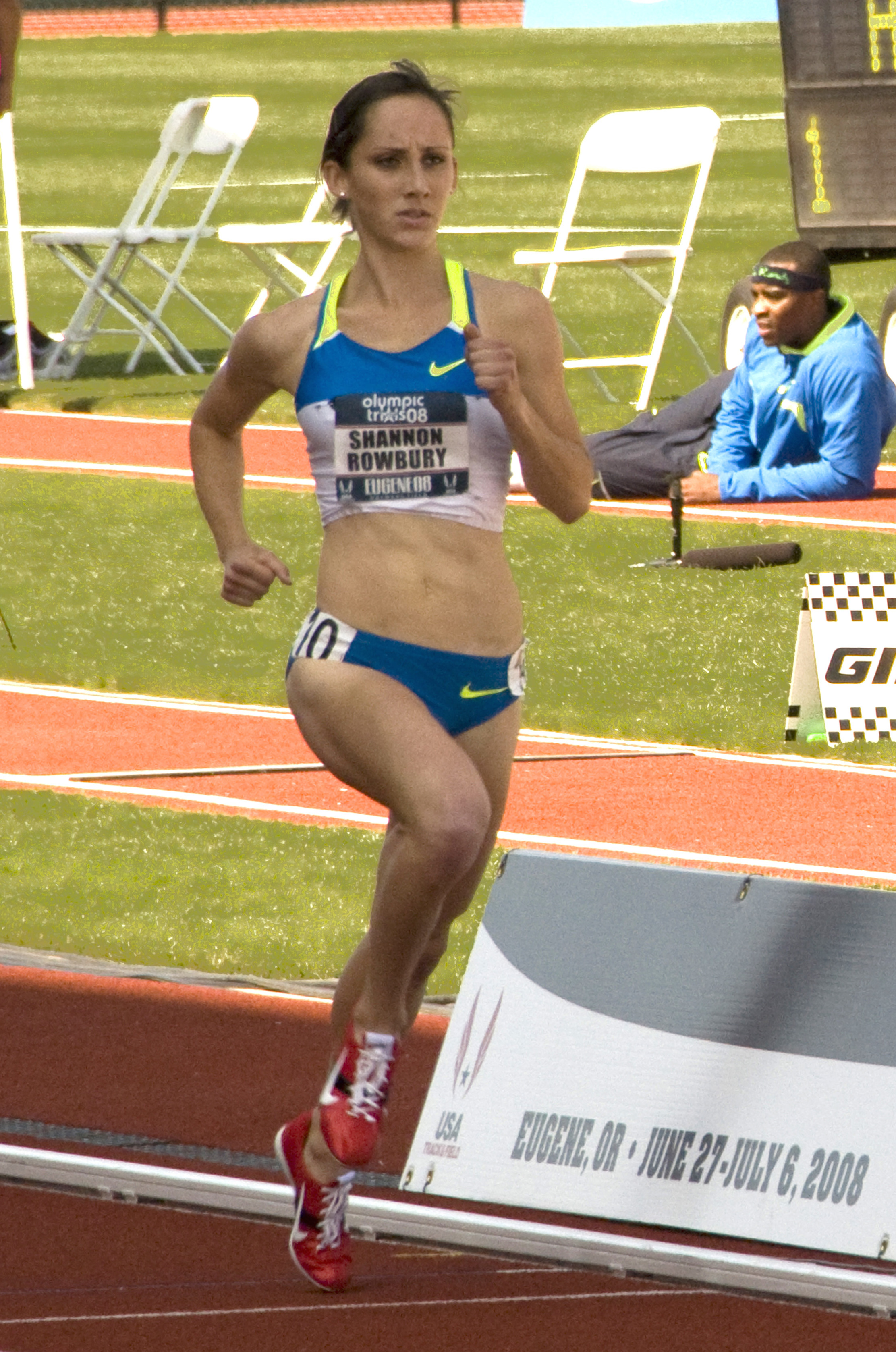 Shannon Rowbury in the Women's 1500m finals of the 2008 United States Olympic Trials in Eugene, Oregon, USA